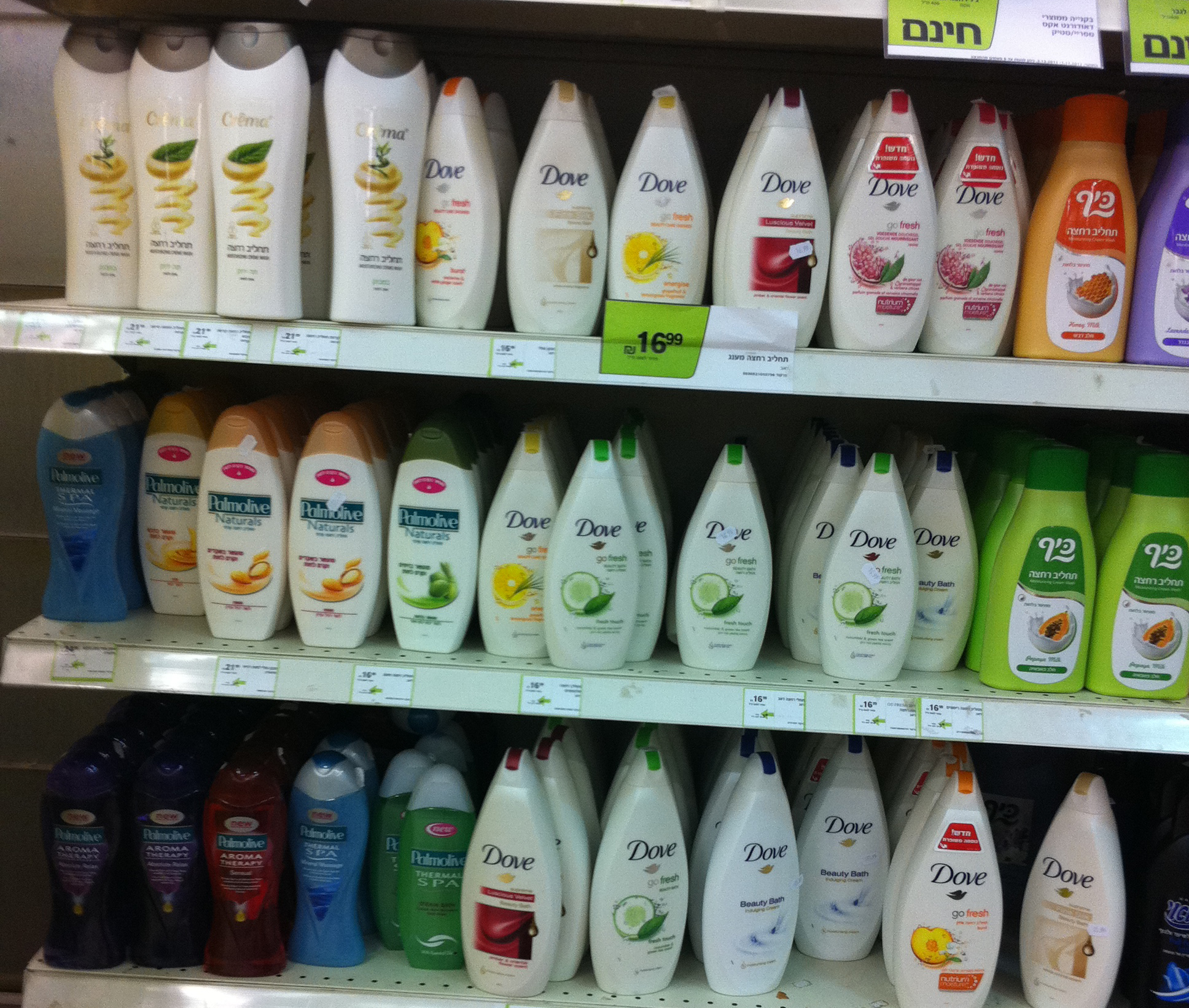 Plenty of liquid body soaps.